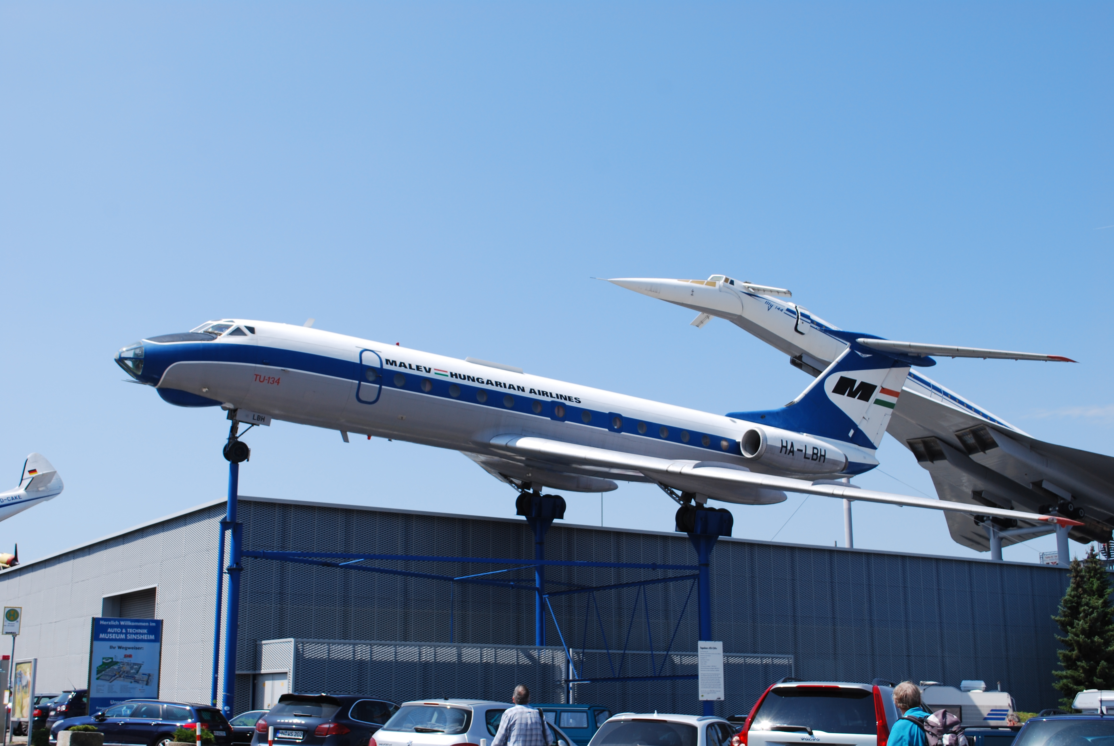 Tupolev Tu-134 Chaika of MALEV at the Auto & Technik Museum, Sinsheim, 6/11.